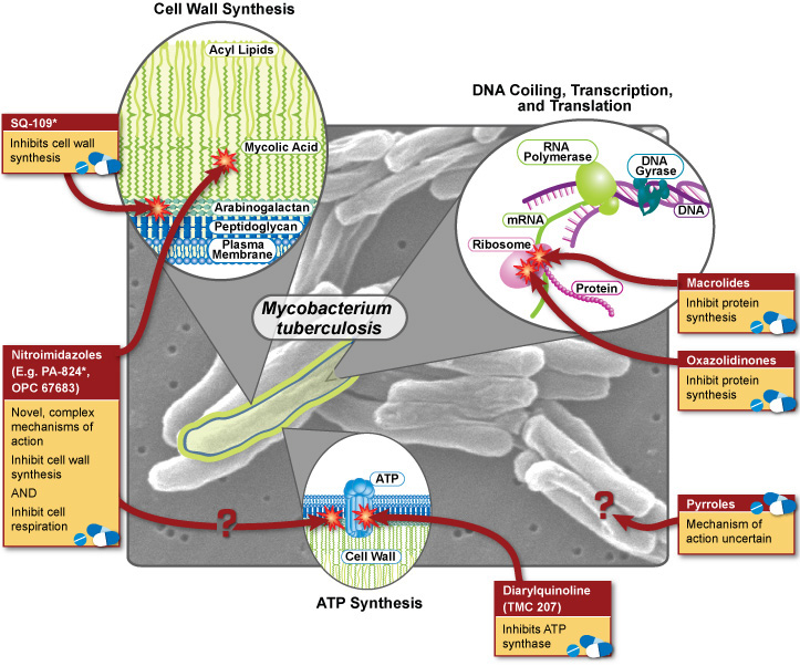 "Several new types of TB drugs currently under development are shown here with their mechanisms of action. NIAID has supported the development of two of these compounds, SQ-109 and PA-824, which are denoted by asterisks (*) above."